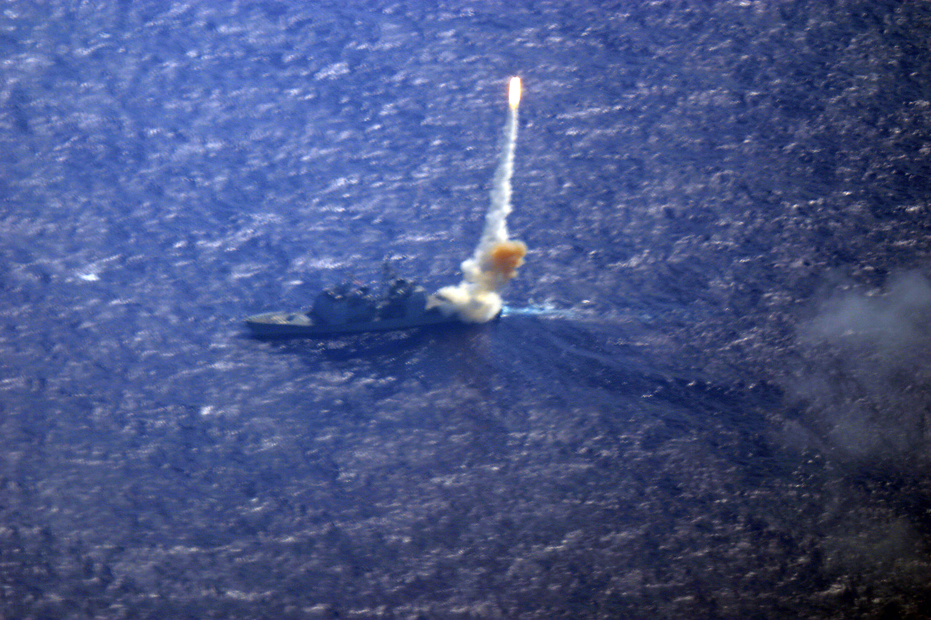 A Standard Missile-3 (SM-3) leaves the guided missile cruiser USS Lake Erie (CG 70) enroute to intercept a short-range ballistic missile target, launched minutes earlier from the Pacific Missile Range Facility, Barking Sands, Kauai, Hawaii. The intercept, which occurred some 100 miles from the island of Kauai, was the latest Missile Defense Agency test of its sea-based midcourse program. The program, in cooperation with the U.S. Navy, has had five intercepts in the last six attempts.